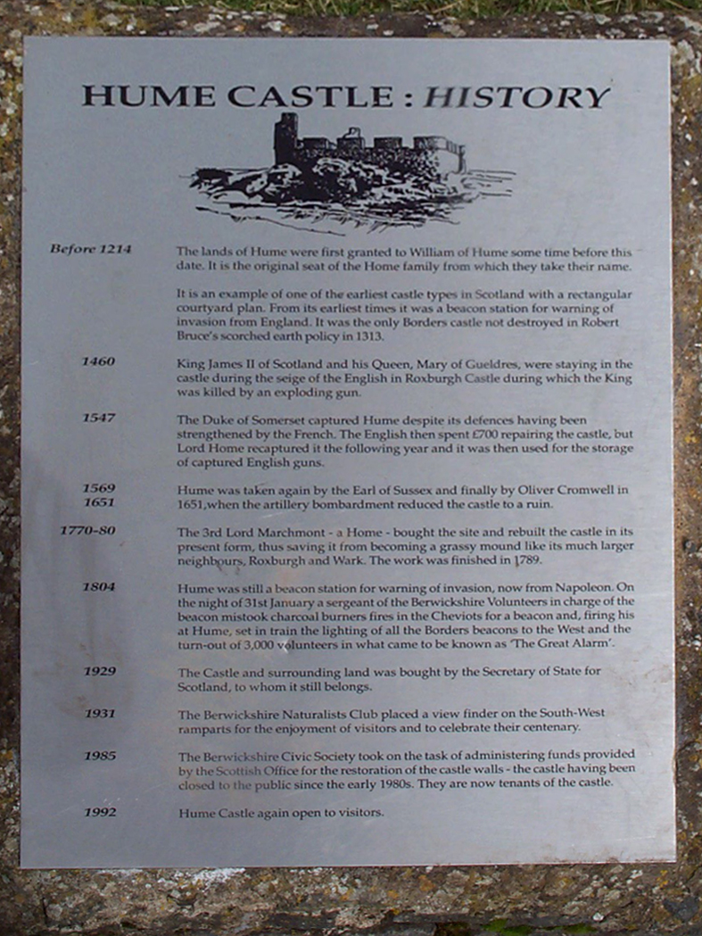 Historical marker at Hume Castle.